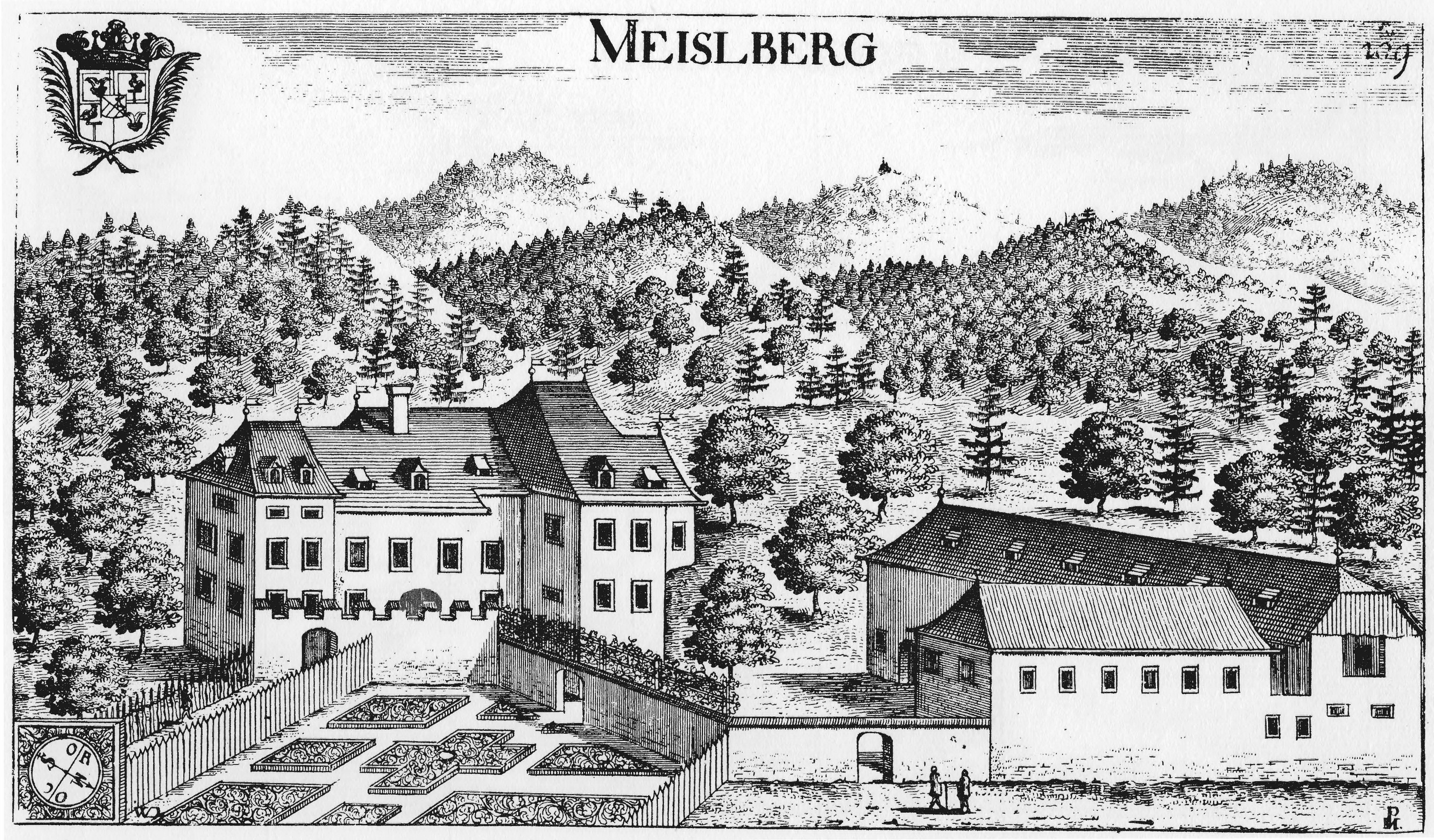 Castle Meiselberg in Maria Saal / Carinthia / Austria / European Union.